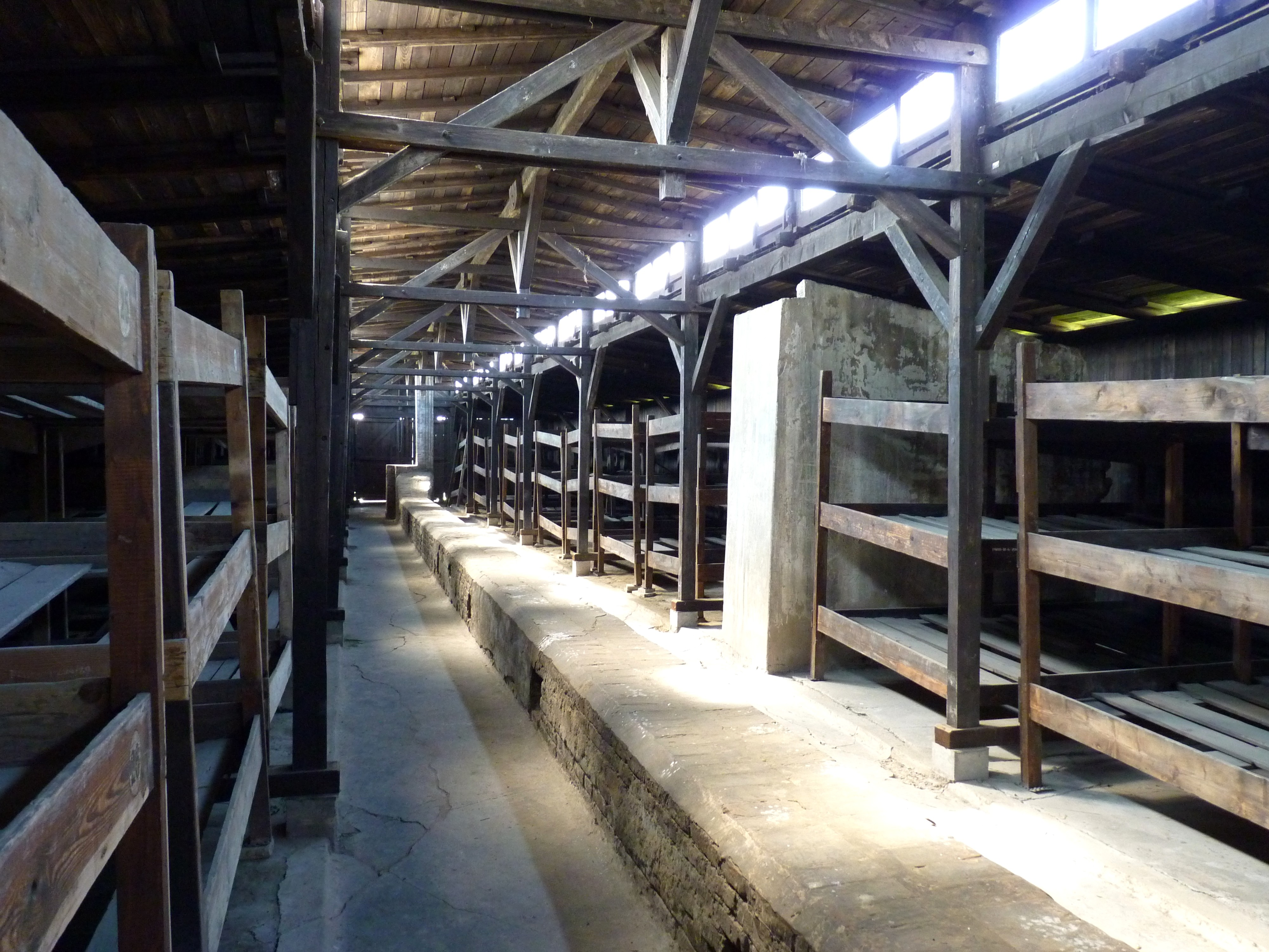 Bunk beds in a barrack at Auschwitz-Birkenau